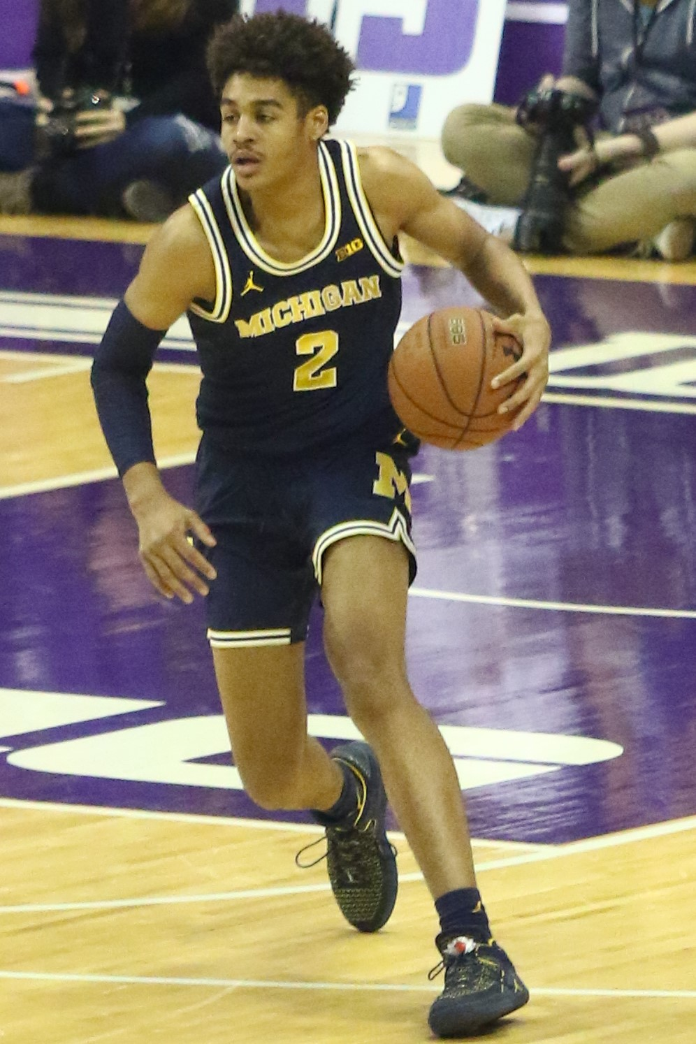 Jordan Poole playing for the w:2017–18 Michigan Wolverines men's basketball team at Allstate Arena